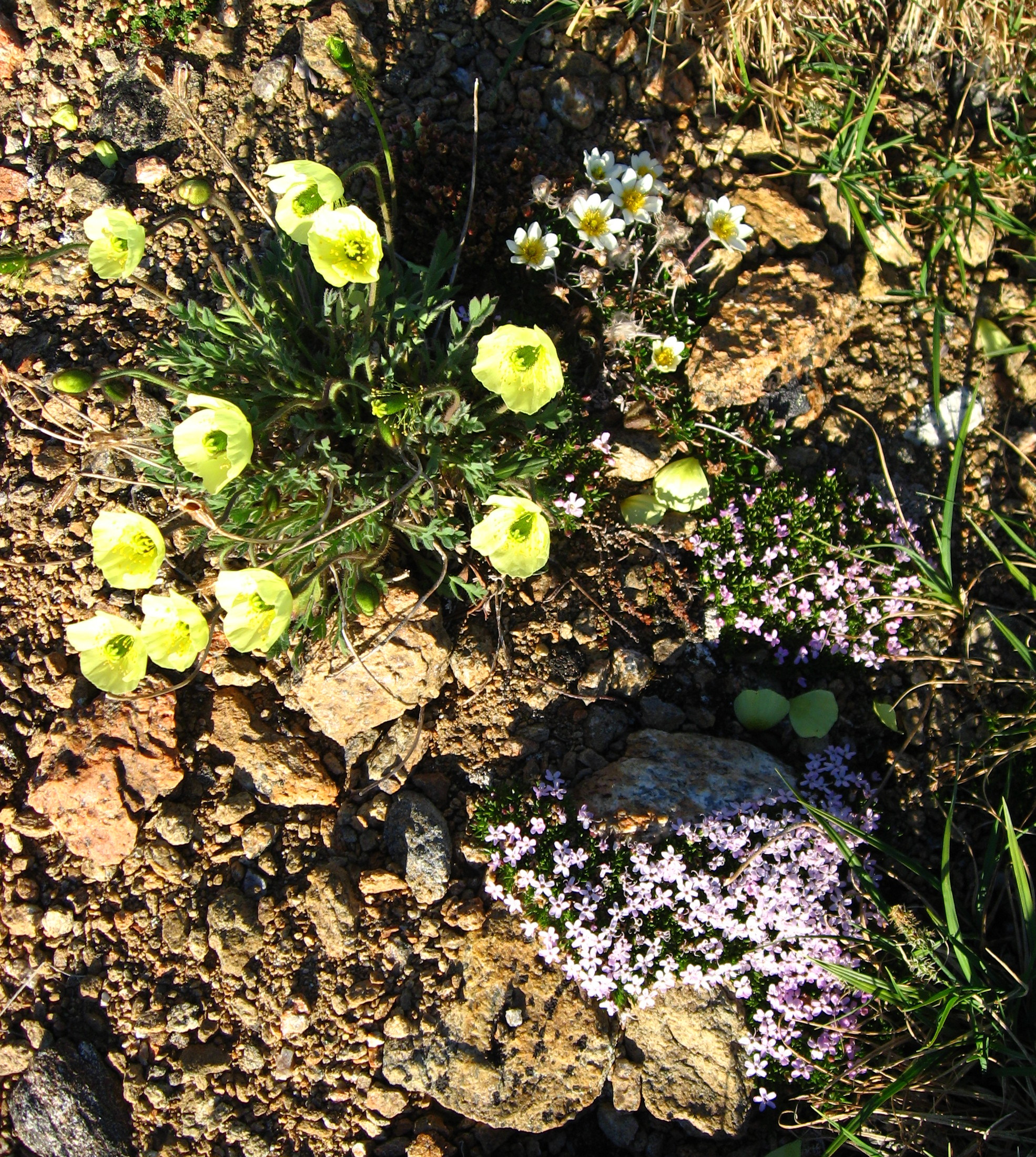 Three plants with flowers photographed near Upernavik, Greenland. The species are Dryas integrifolia in the upper right corner with pale yellow flowers, Papaver radicatum in the upper left corner with large yellow flowers, and finally two shrubs of Silene acaulis with many small pale red-violet flowers to the lower right.